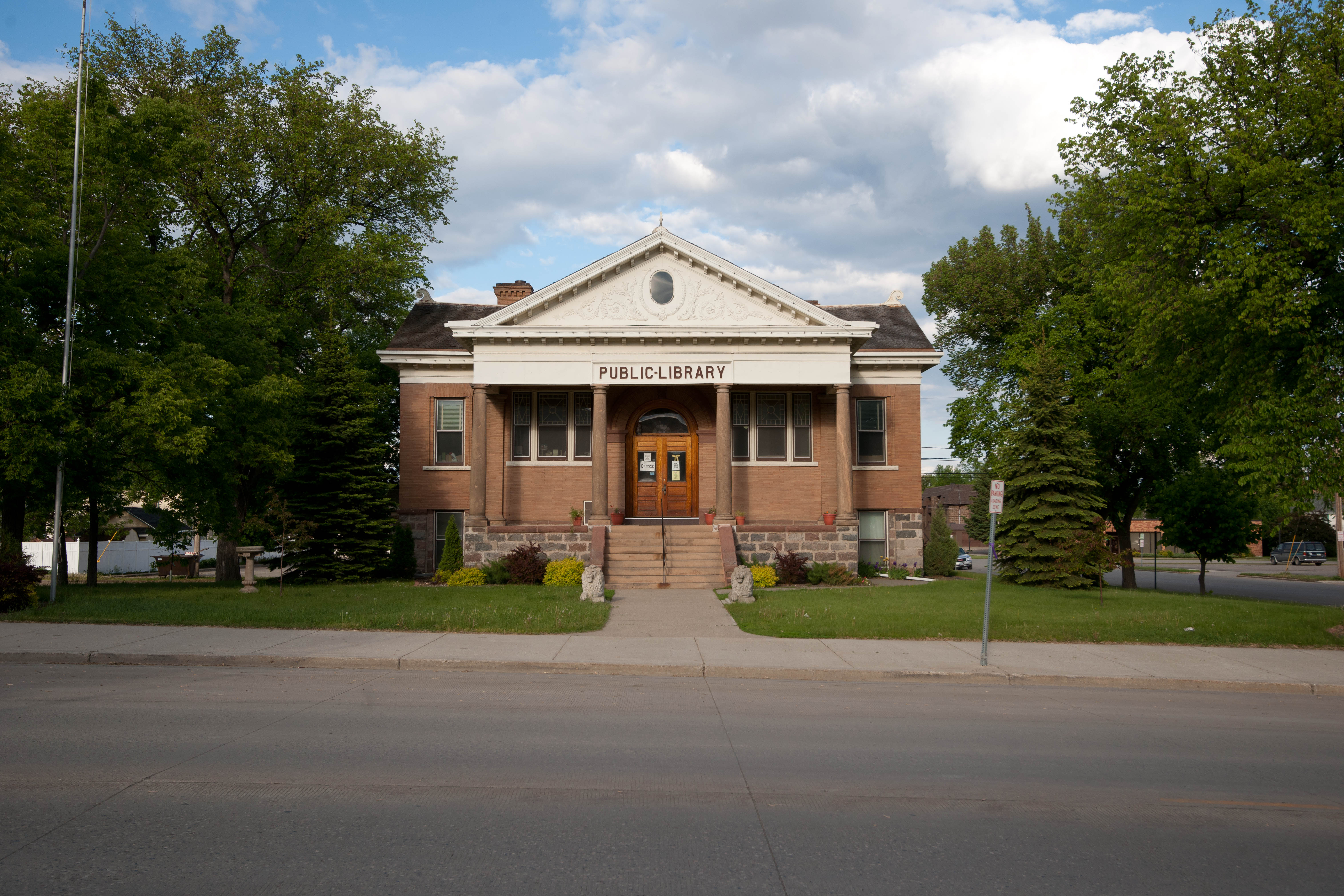 Valley City Carnegie Library in Valley City, North Dakota, listed on the National Register of Historic Places. From